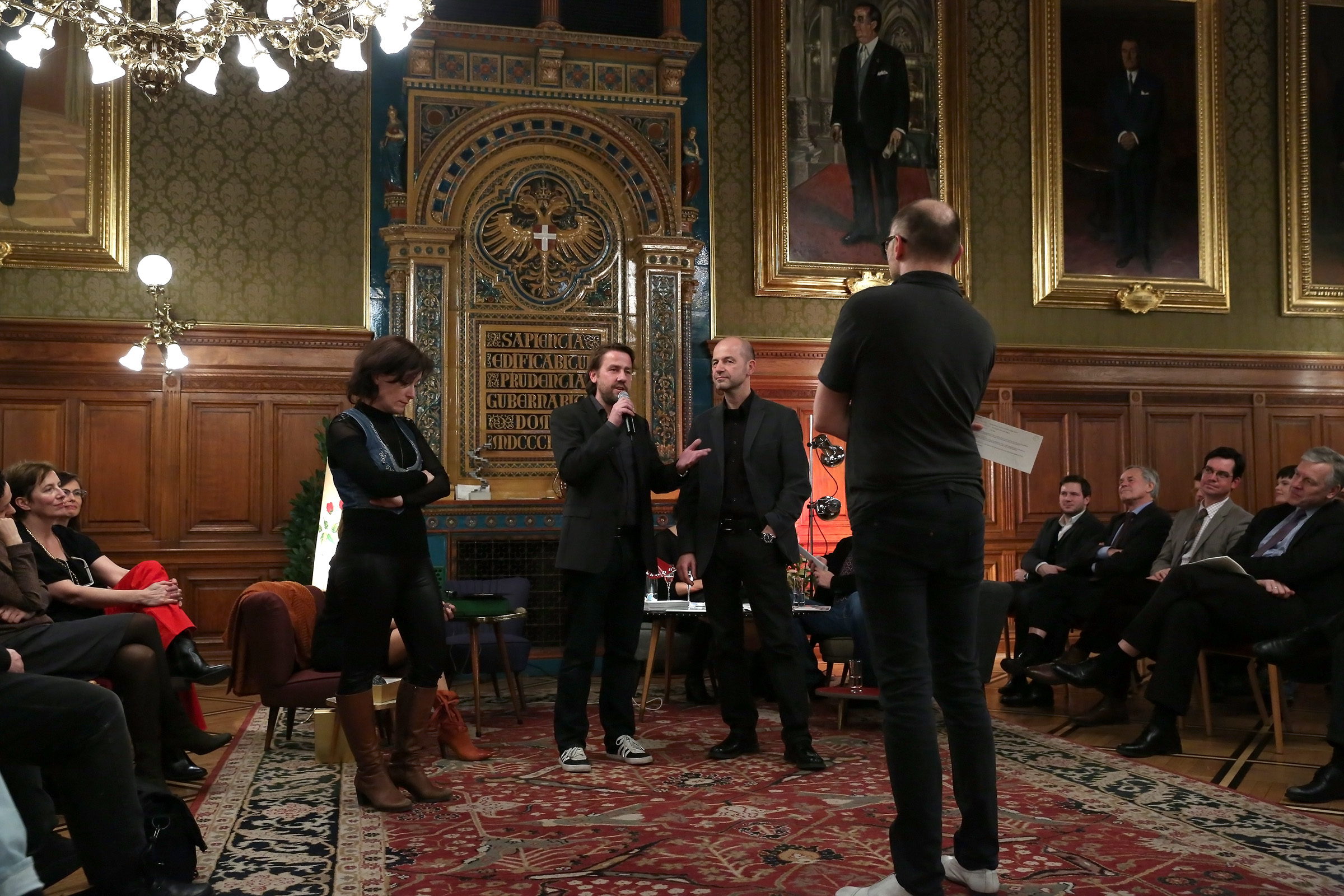 l.t.r.: Judit Varga, Bernd Jungmair and Stefan Jungmair. "Abend der Nominierten" ("Evening of the Nominees") at Rathaus, Vienna on the day before the Austrian Film Awards 2014 (Vienna, Austria).